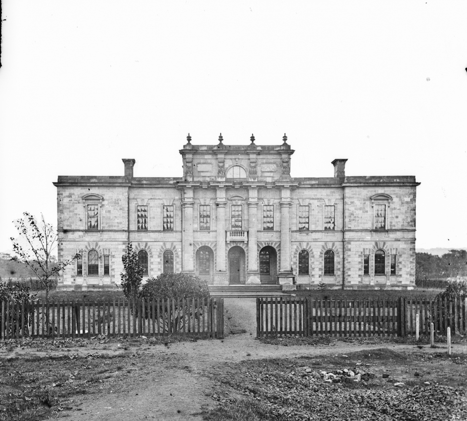 This fine old building looks neglected and abandoned all those years ago, is it even there now? Photographers: Frederick Holland Mares, James Simonton Contributor: John Fortune Lawrence Collection: [#//catalogue.nli.ie/Collection/vtls000034077 Stereo Pairs Photograph Collection] Date: Circa 1860 - 1883 NLI Ref: STP_0438 You can also view this image, and many thousands of others, on the NLI’s catalogue at